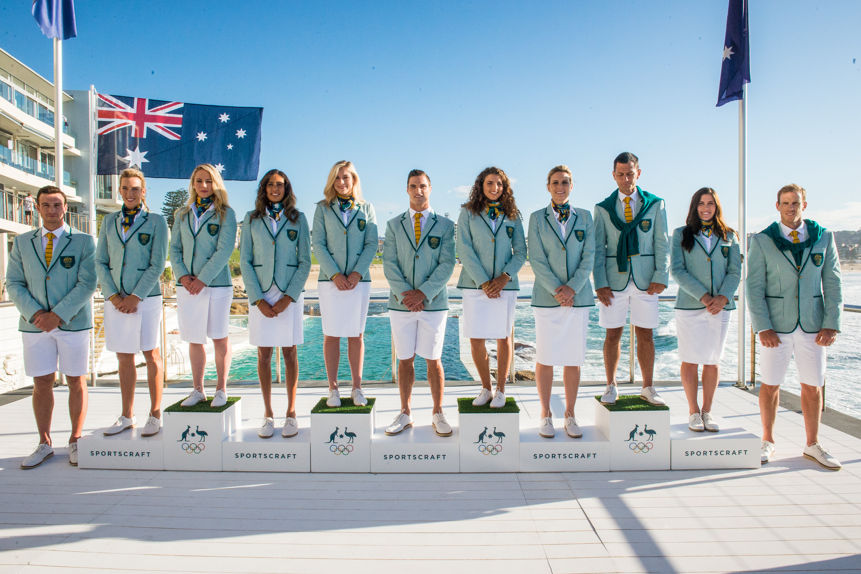 Australian Olympic Committee (AOC) Opening Ceremony Uniform Official Launch for Rio 2016, March 30, 2016. (left to right) Josh Dunkley-Smith, Louise Bawden, Kaarle McCulloch, Taliqua Clancy, Annette Edmondson, Ed Jenkins, Jessica Fox, Penny Taylor, Jamie Dwyer, Charlotte Caslick and Ken Wallace